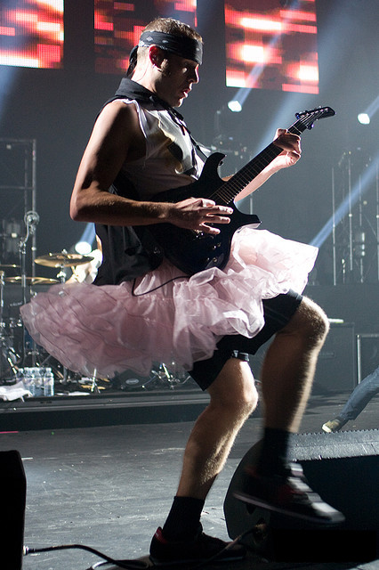 guitarist Adam Dutkiewicz, using a tutu